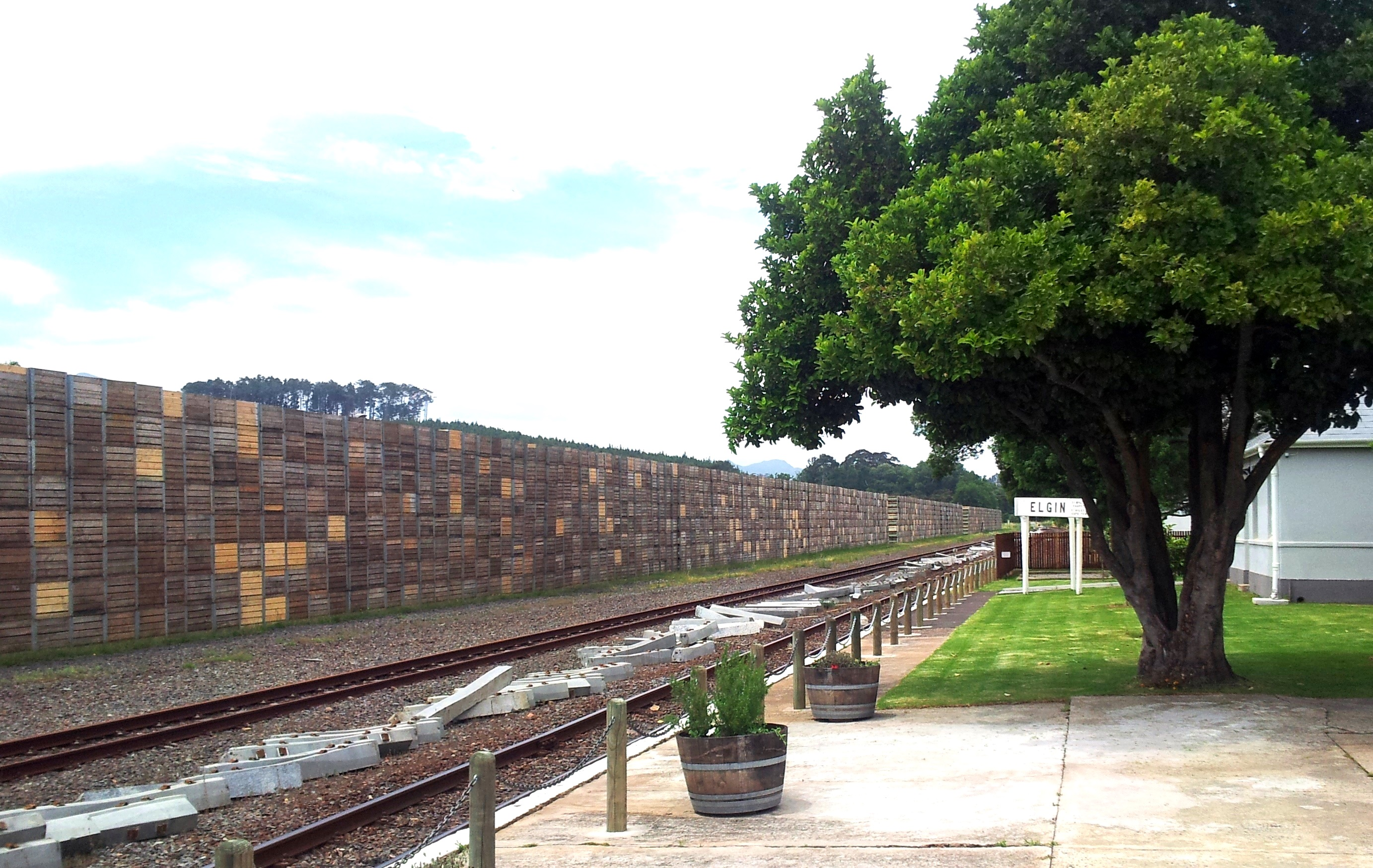 Elgin Railway Station - agricultural produce - Molteno brothers - Glen Elgin Western cape South Africa